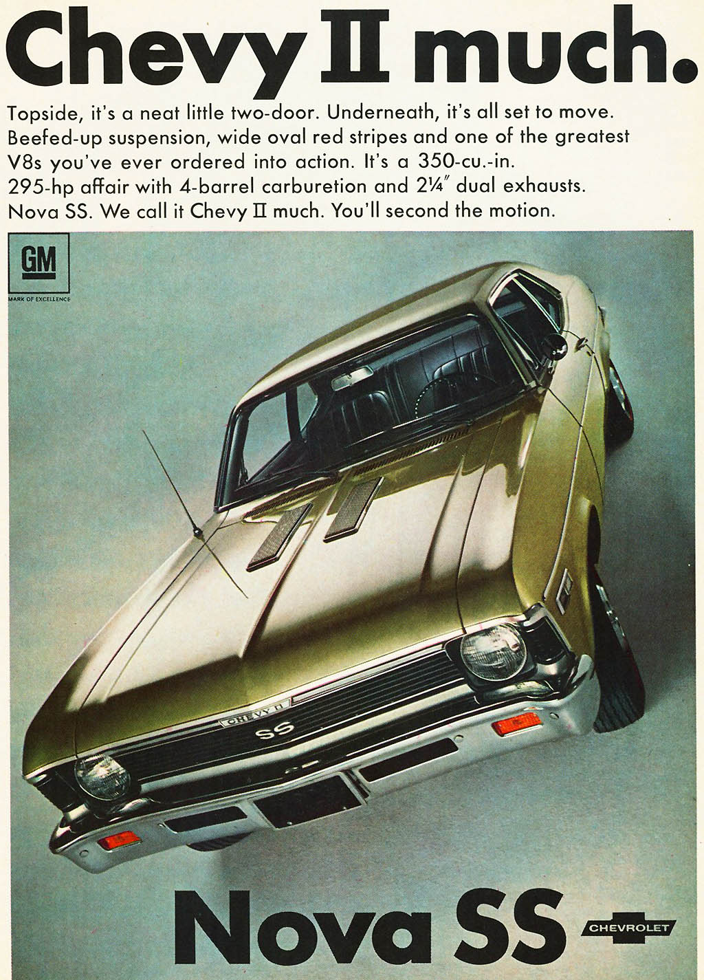 Advertisement for the Chevrolet Nova SS, with the legend "Chevy II much".